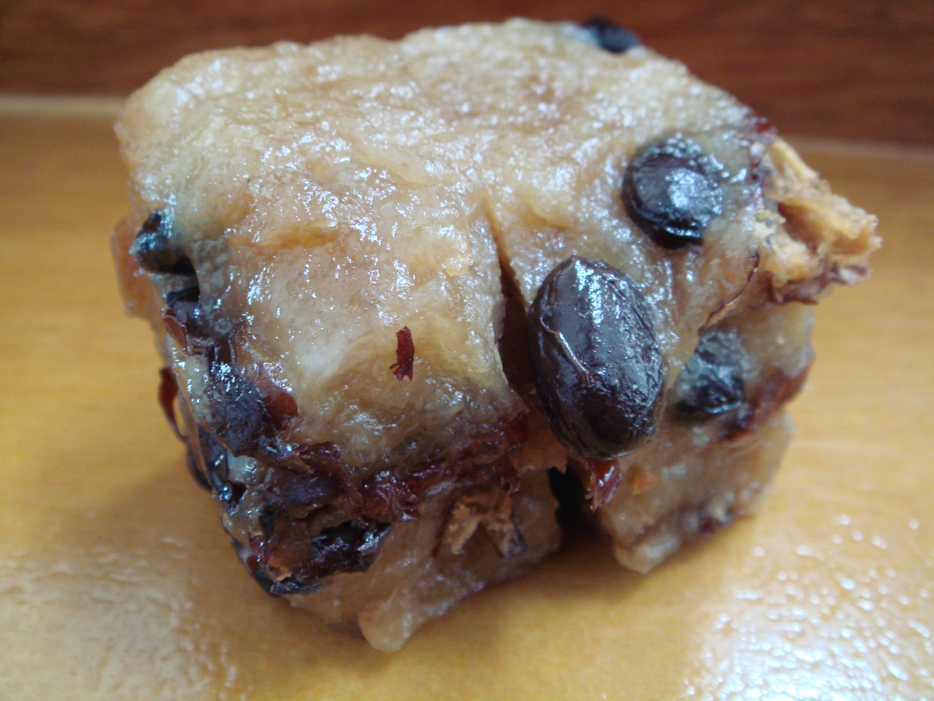 Tteok, a Korean rice cake